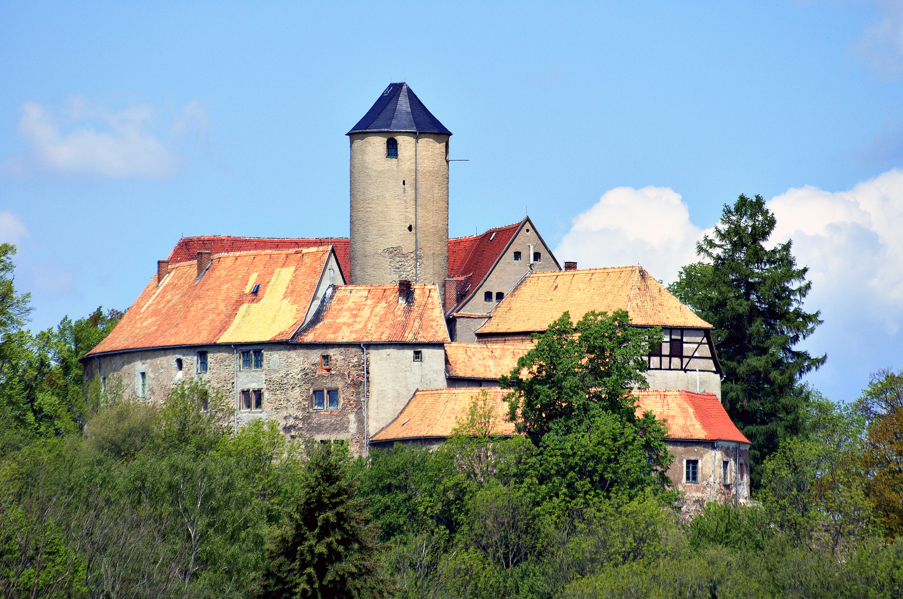 This image shows the castle in Schönfels (Saxony, Germany).